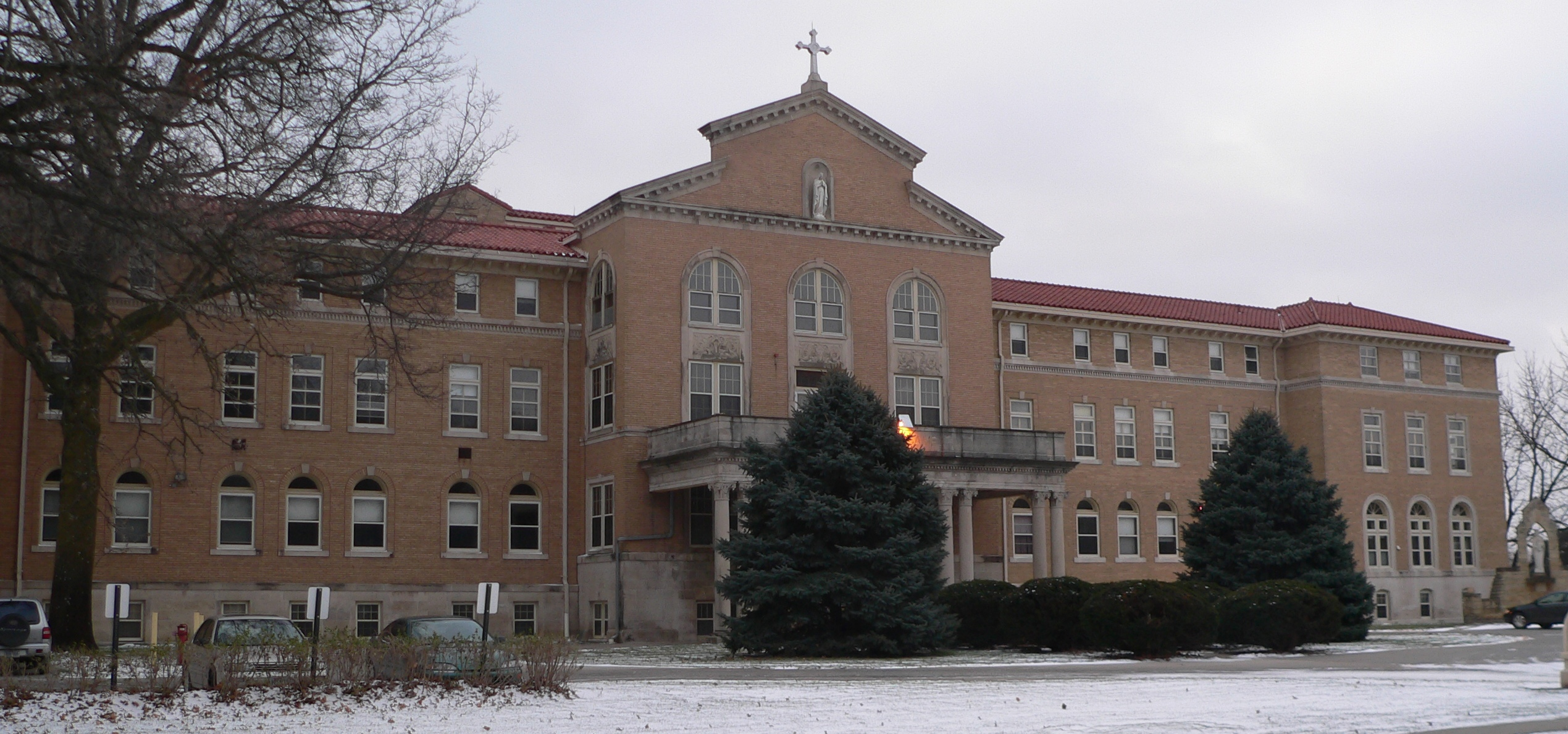 Notre Dame Academy and Convent, located at 3501 State Street in Omaha, Nebraska; seen from the north. The Renaissance Revival building was constructed in 1926. It is listed in the National Register of Historic Places.